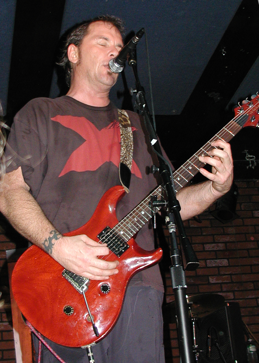 Ralph Spight, guitarist and singer for Victim's Family, onstage in San Francisco.